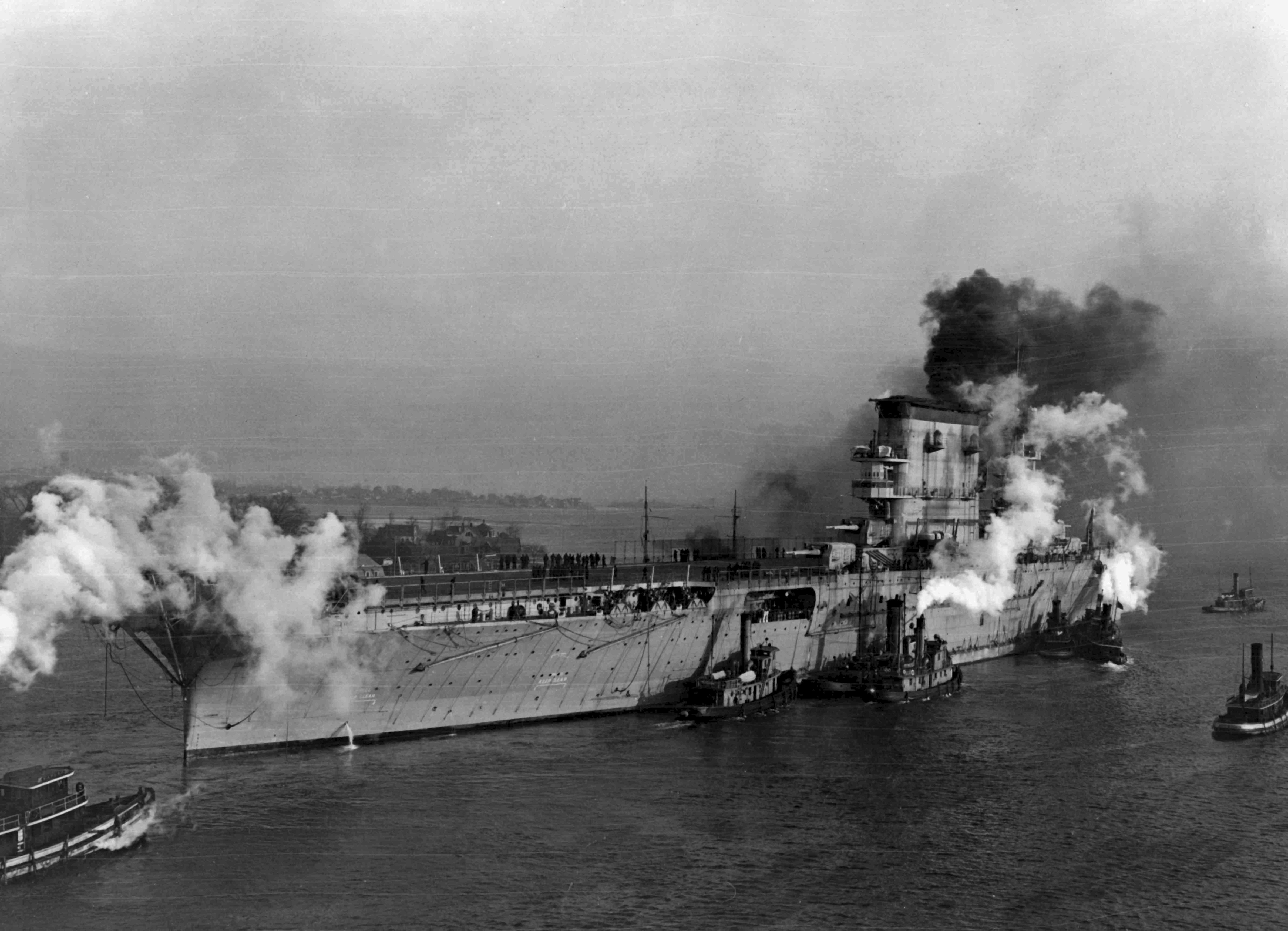 Commercial tugboats assist the U.S. Navy aircraft carrier USS Lexington (CV-2) during her transit from the Fore River Shipyard in Quincy, Massachusetts (USA), to the Boston Navy Yard for her final dry docking before her shakedown cruise. Lexington had been commissioned on 14 December 1927.